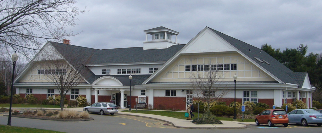 Case Memorial Library (exterior), Orange, CT, USA